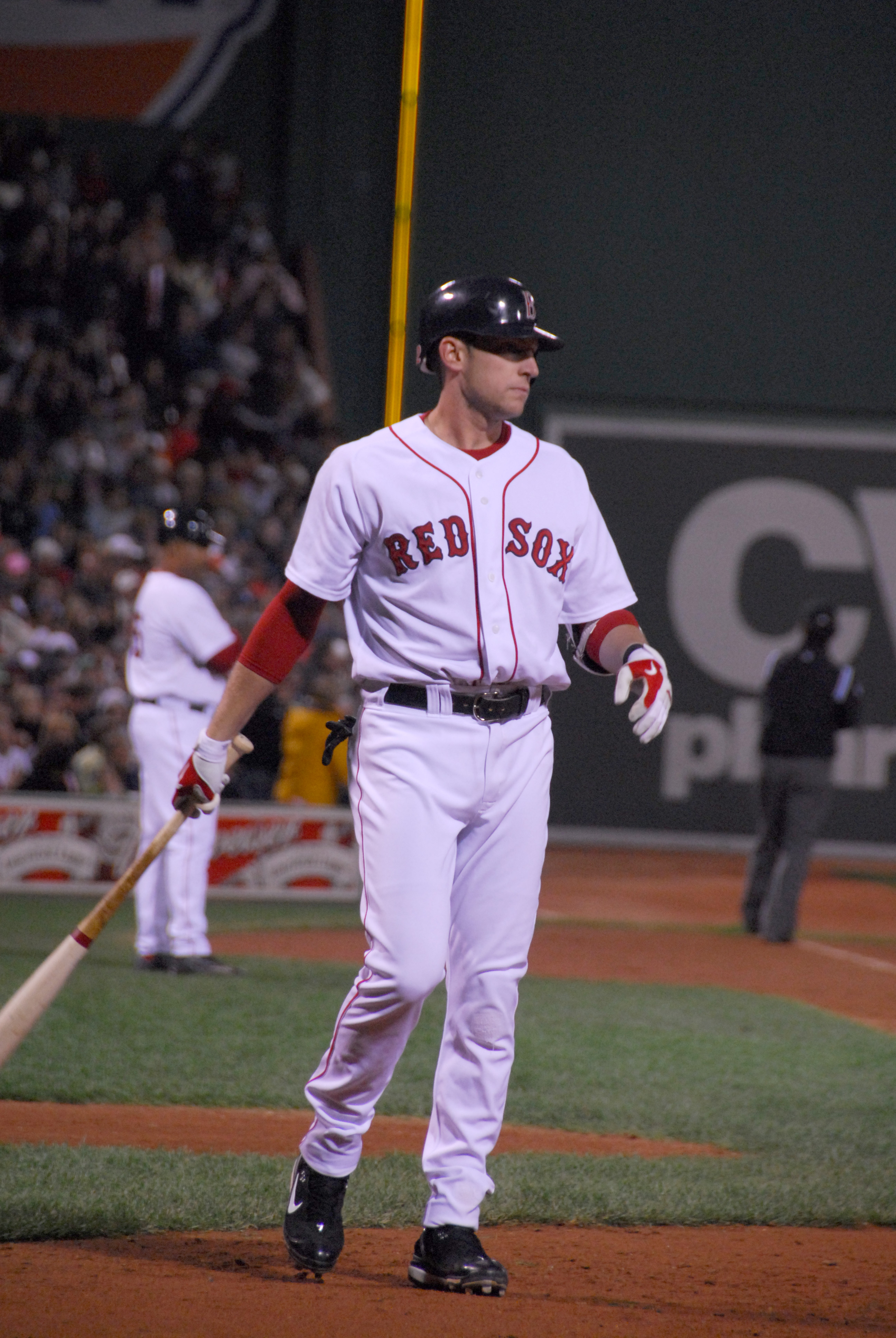 Jed Lowrie with the Boston Red Sox in 2008, at Fenway Park